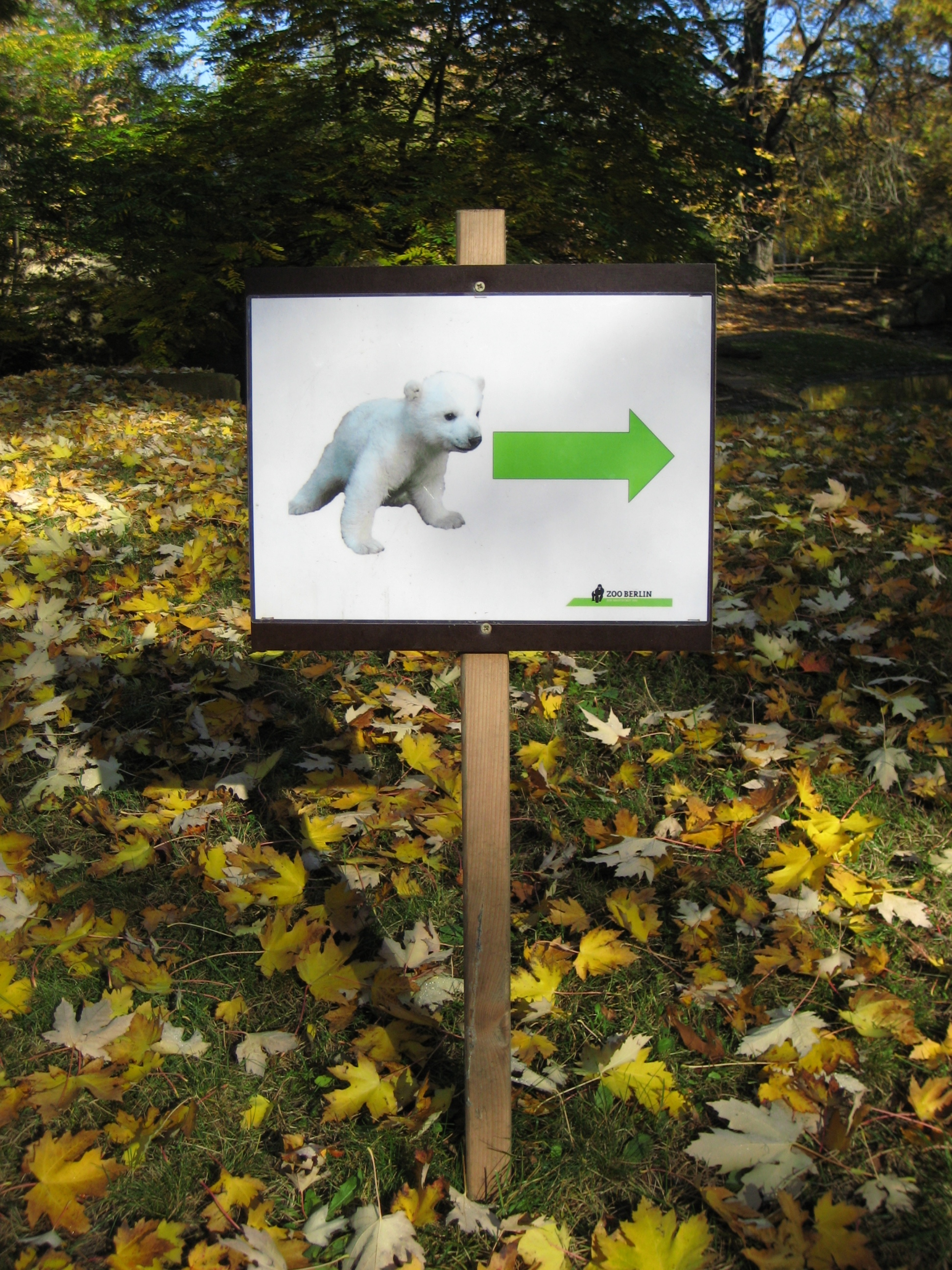 Signpost for polar bear Knut at the Zoo of Berlin